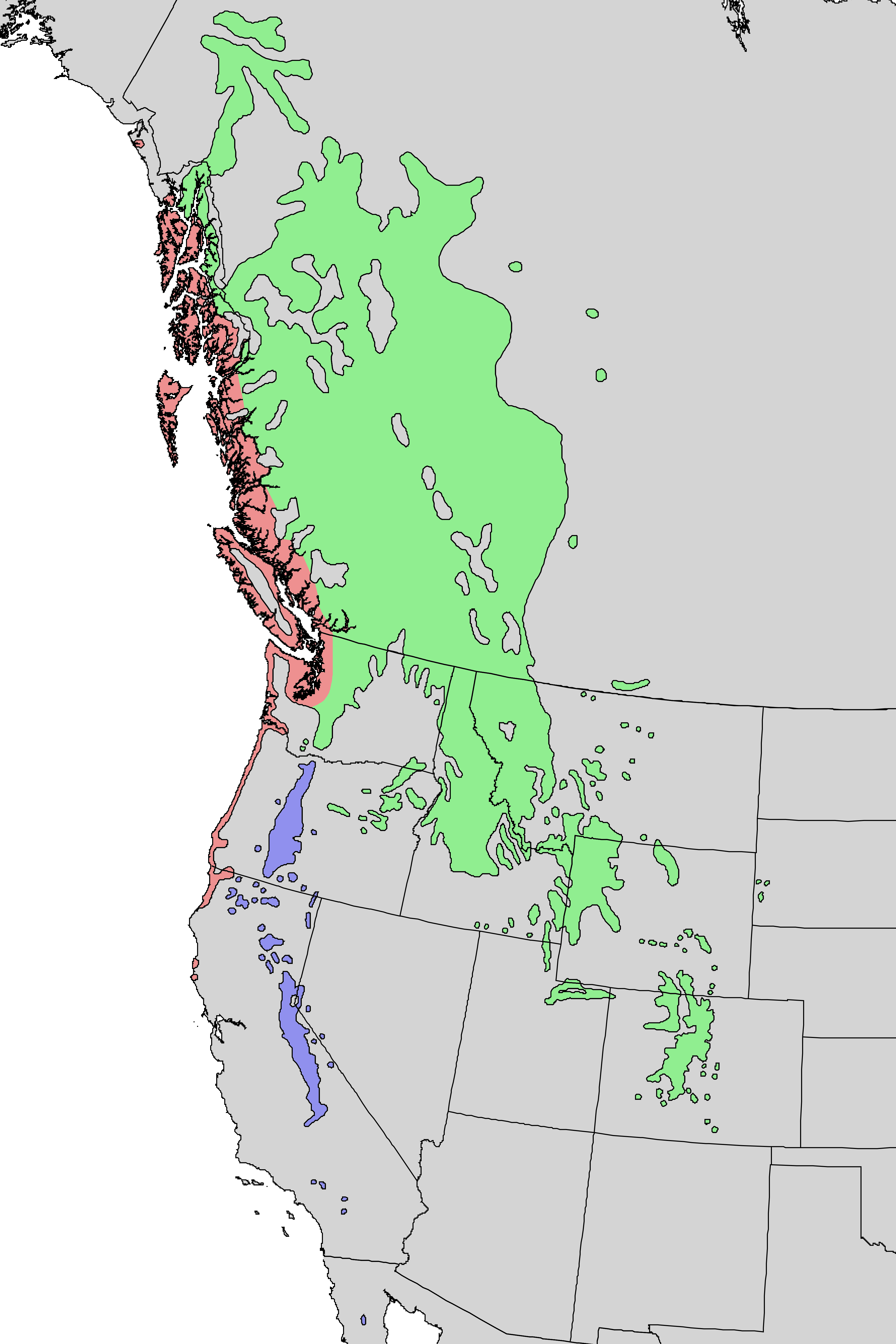 Natural distribution map for Pinus contorta red - Pinus contorta subsp. contorta green - Pinus contorta subsp. latifolia blue - Pinus contorta subsp. murrayana